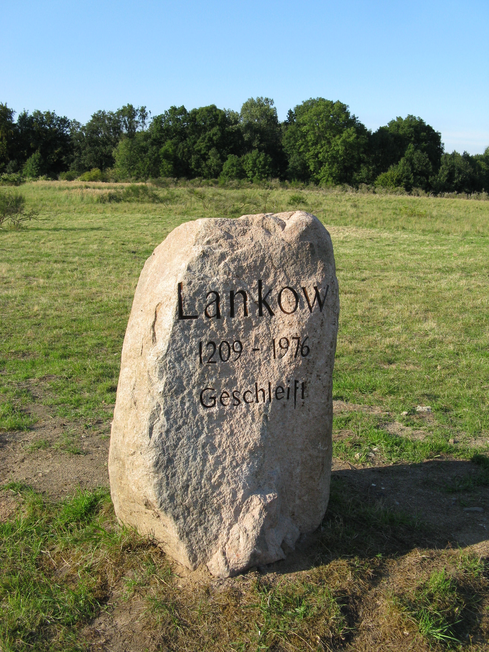 Memorial (built 2009) for the abandoned village Lankow, disctrict Nordwestmecklenburg, Mecklenburg-Vorpommern, Germany